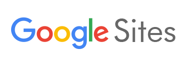 Logo de Google Sites